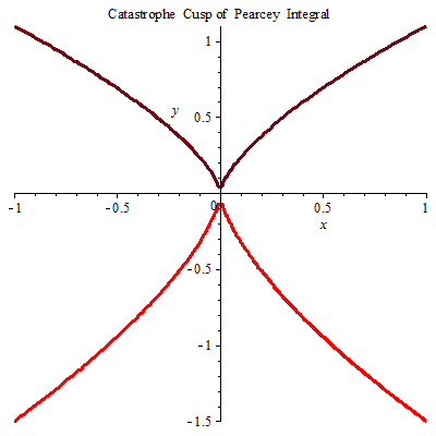 Catastrophe Cusp of Pearcey Integral